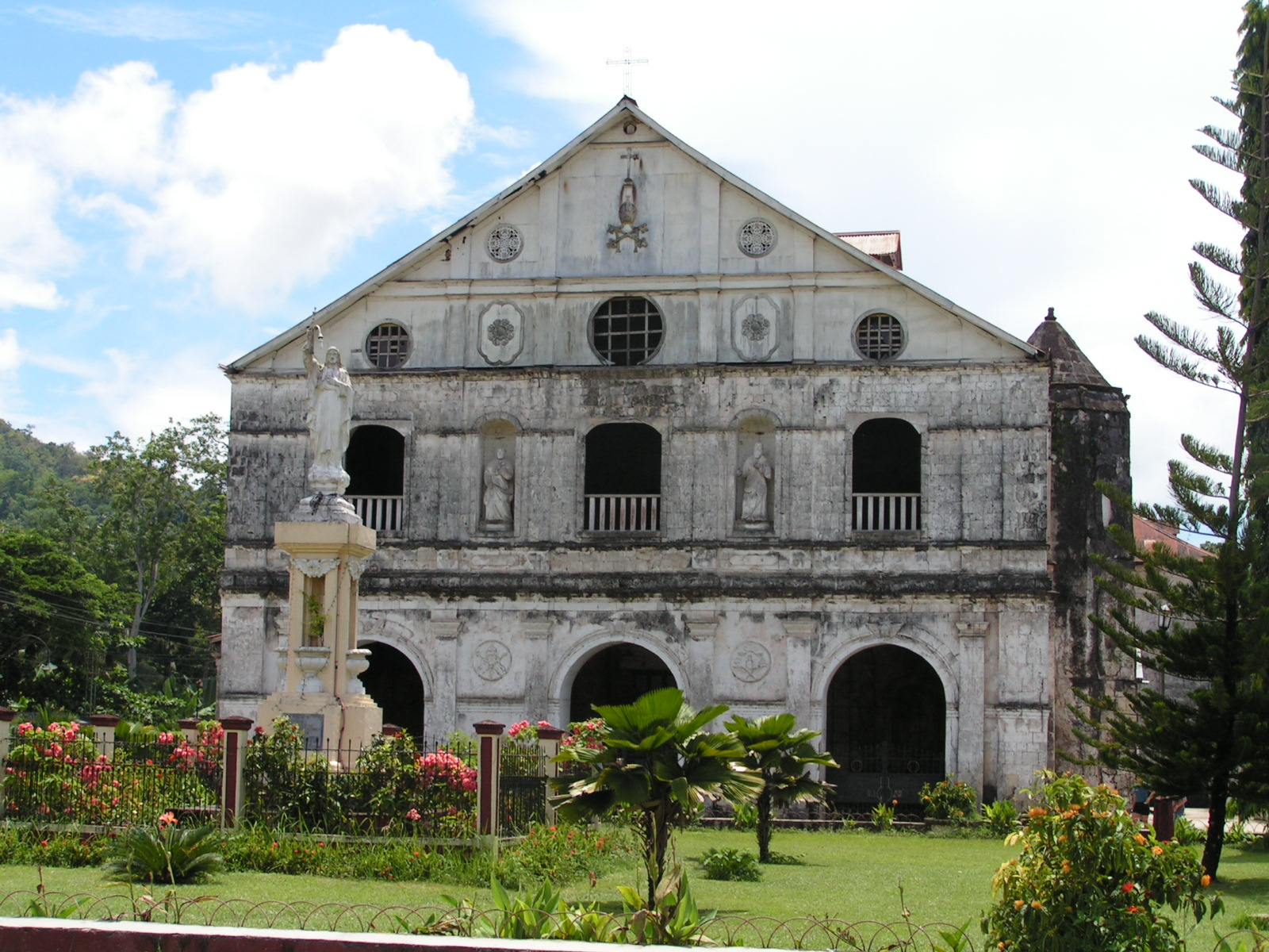 own work